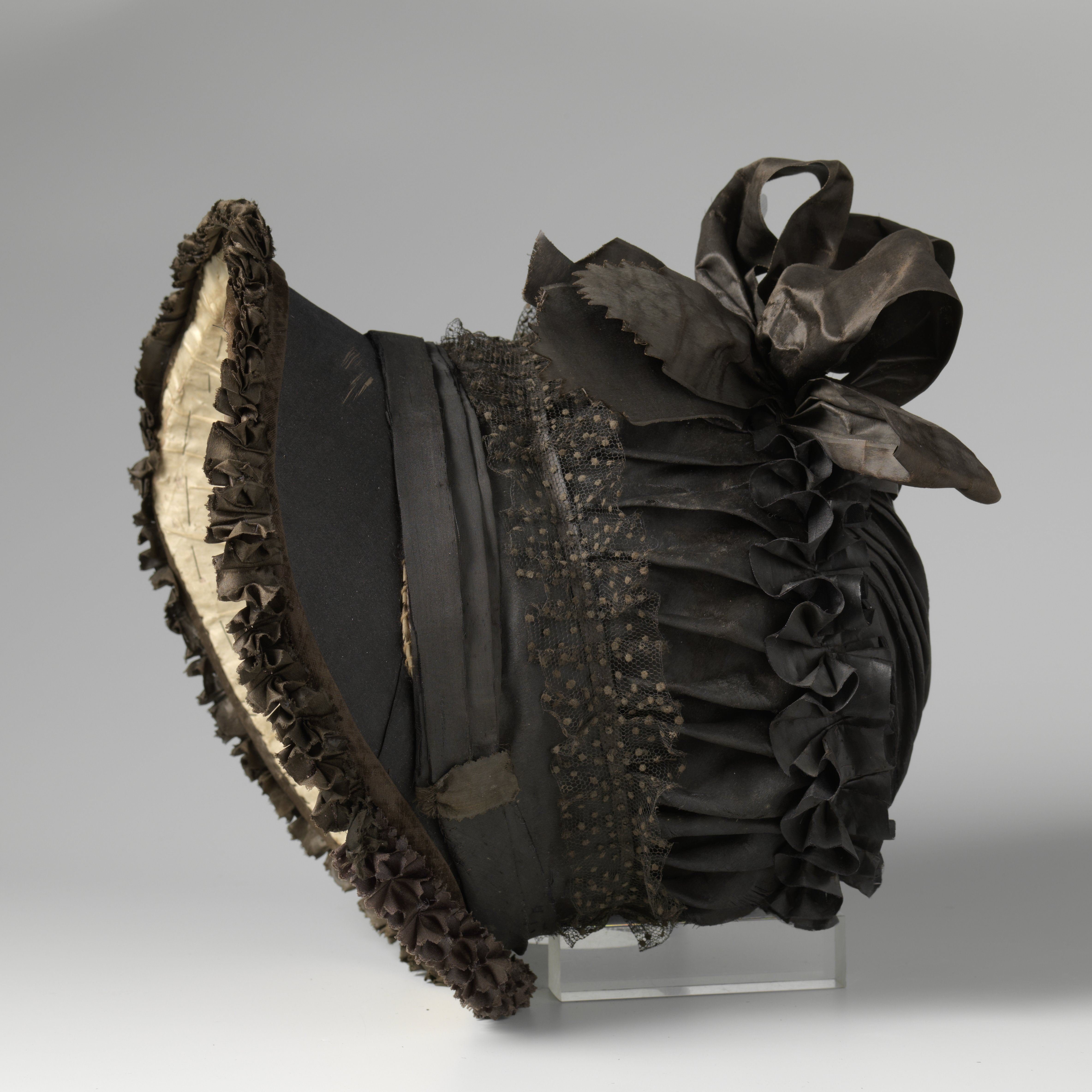 Black silk poke bonnet. The crown is covered with black silk and adorned with a box pleated band of silk to which a silk bow is attached as well as a band of black tulle with polka dots. The brim is trimmed with a band of velvet and a band of folded silk.